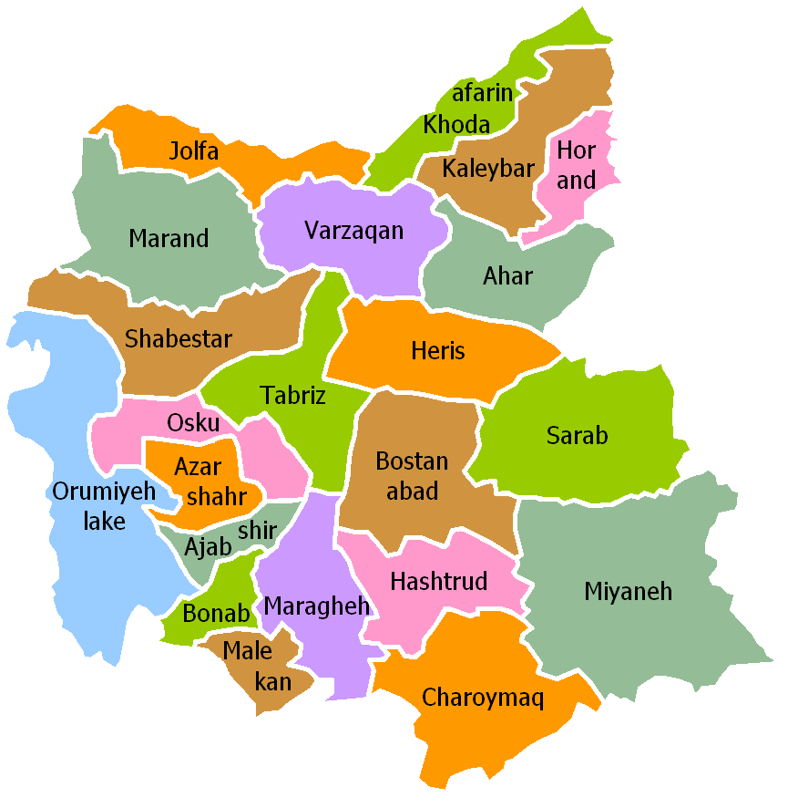 East Azerbaijan counties